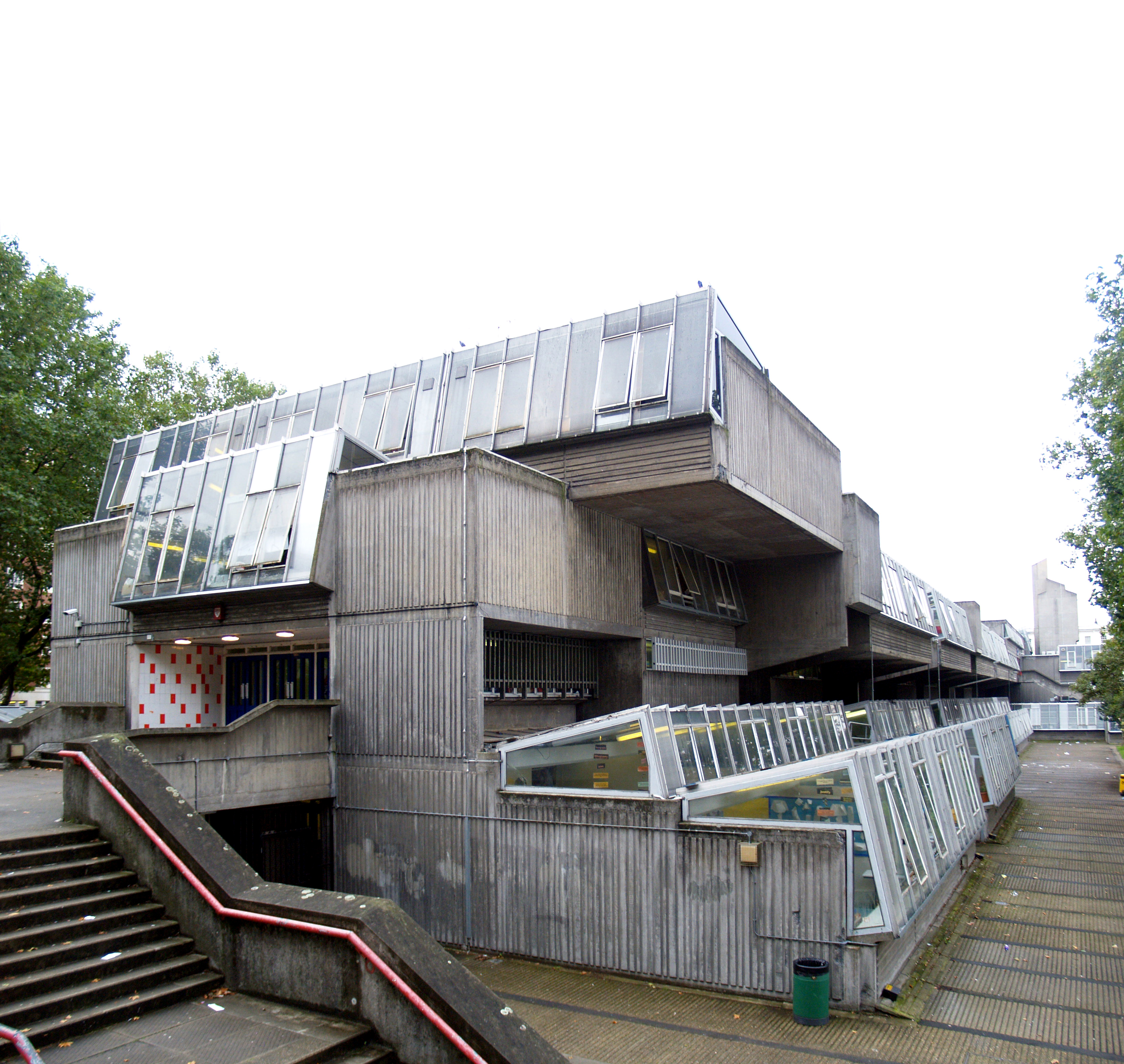 pimlico school, lupus street, westminster, london. greater london council architects department / john bancroft, 1966-1970